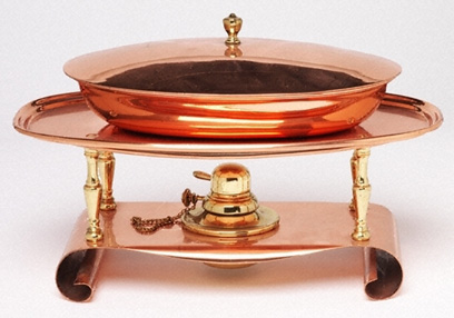 Chafing Dish And Stand, Raised copper, with cast brass fittings, electroplated inside, London, England, about 1895, Marked 'BENSON' for designer W.A.S. Benson (1854-1924), made in his workshop This chafing dish, supported on a stand over a burner, kept food warm. W.A.S. Benson's strikingly original and simple designs exploited the combination of copper and brass. Copper is easily worked and retains its strength. It also conducts heat. Brass handles allow this dish to be carried without risk of burnt fingers. Benson was also an amateur engineer. He combined an Arts and Crafts passion for the handmade with the use of modern machinery. William Morris called him 'Mr Brass Benson' for his prolific use of the metal.